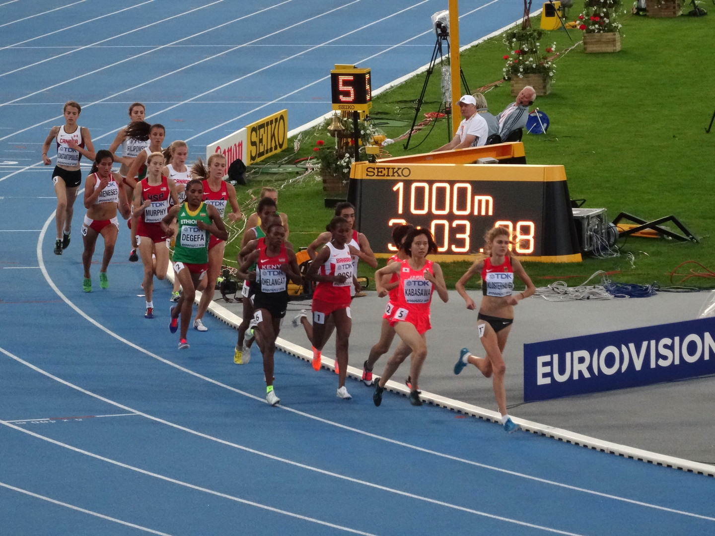 2016 IAAF World U20 Championships in Bydgoszcz, 3000m women final